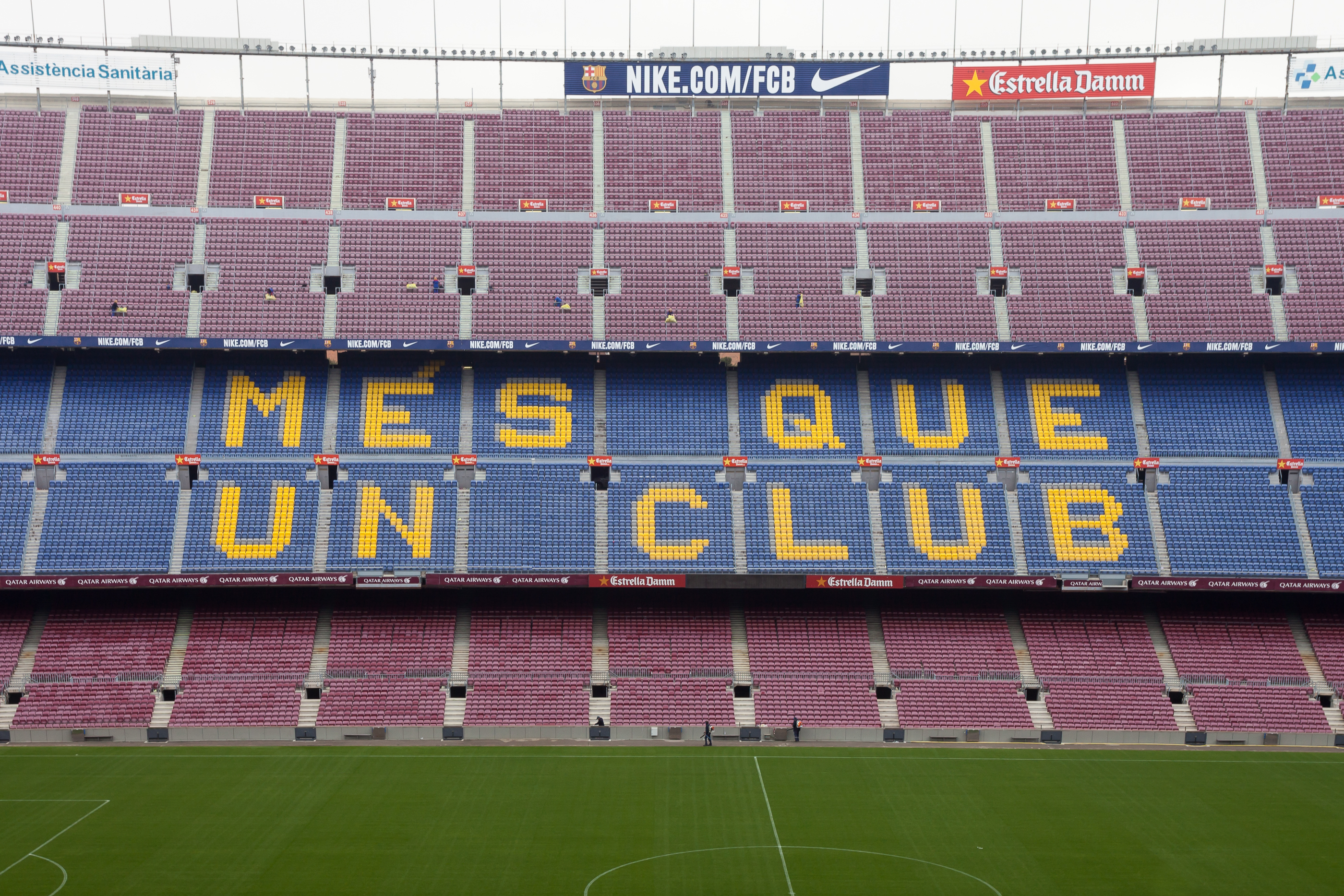 Camp Nou. Barcelona